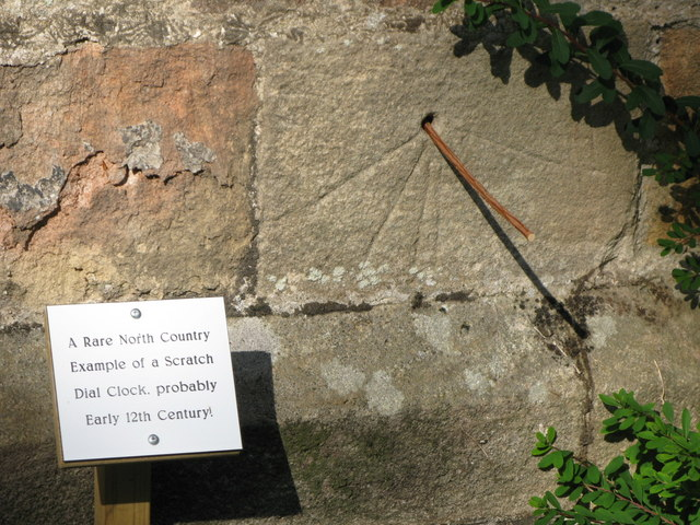 Mass dial or "scratch clock" at Bywell St. Peter, Northumberland. Low on the wall of the south aisle is one of the few scratch clocks in the north of England. It is a sundial set vertically and the gnomon or style in the hole casts a shadow on the scratches which indicate the times of services, daily masses and vespers, and mid-way, the dinner hour. (Source: Leaflet Welcome to Bywell)